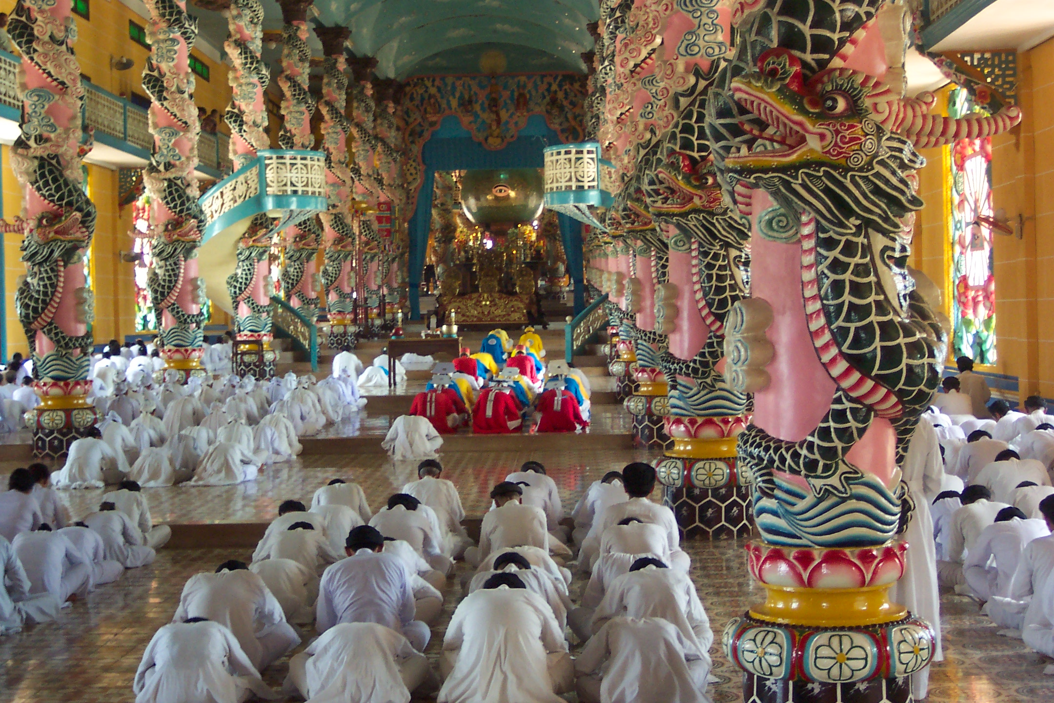 Inside the Cao Dai Temple, Tay Ninh, Vietnam